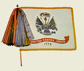 United States Army Flag with campaign streamers